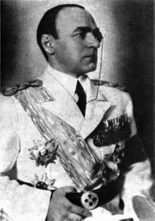 Armand Călinescu (1893 - 1939), Romanian politician, official photograph from the 1930s (during his terms as premier).